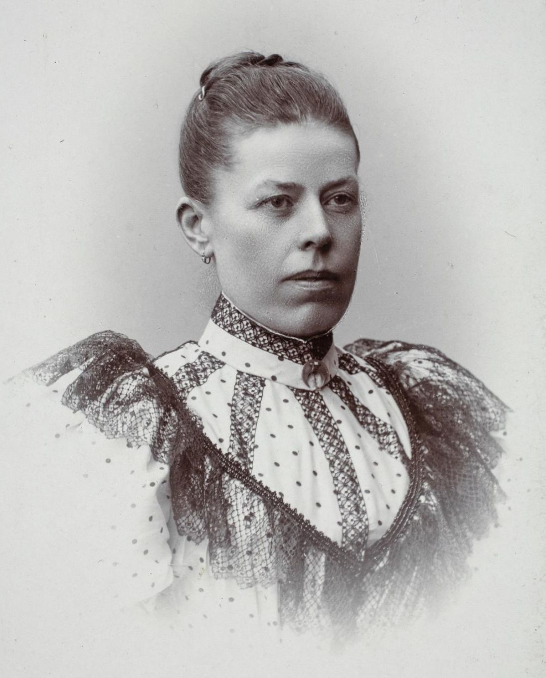 Maria Tschetschulin, the first Finnish woman to take the matriculation exam.